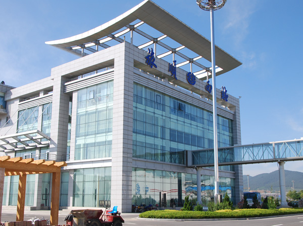 Bohai Train Ferry - Lushun West Station A (Station Building). Please discard "Bohai_Train_Ferry_-_Dalian_West_Station_A.jpg" file that was uploaded earlier